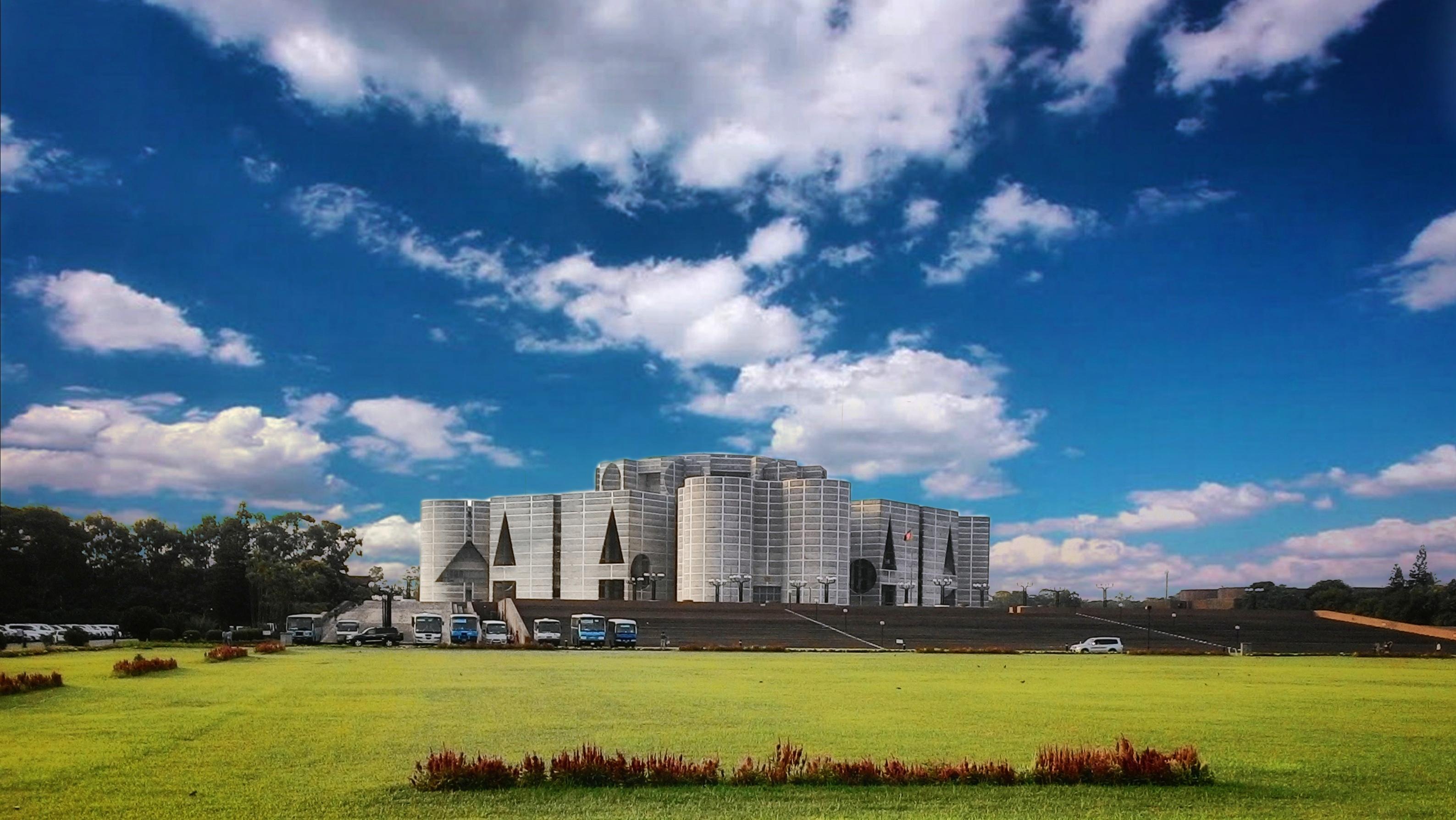 National Assembly of Bangladesh